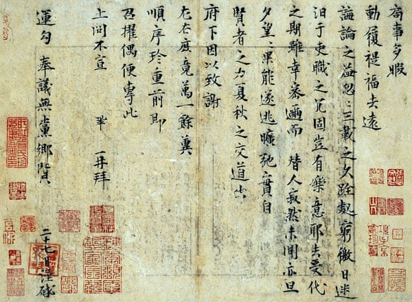 Zeng Gong letter